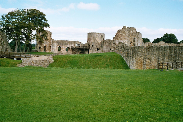 Barnard Castle